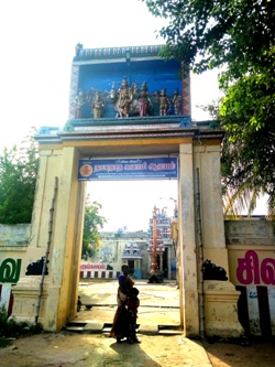 Entrance, Naganathar Temple, Bamani, Mannargudi, Tiruvarur district, Tamil Nadu, India